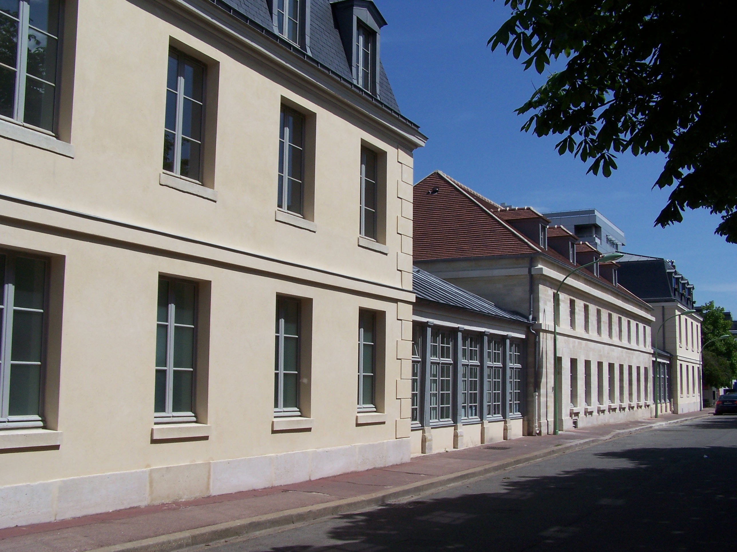 Historical buildings of the « École de la Salpêtrière », psychiatric school.